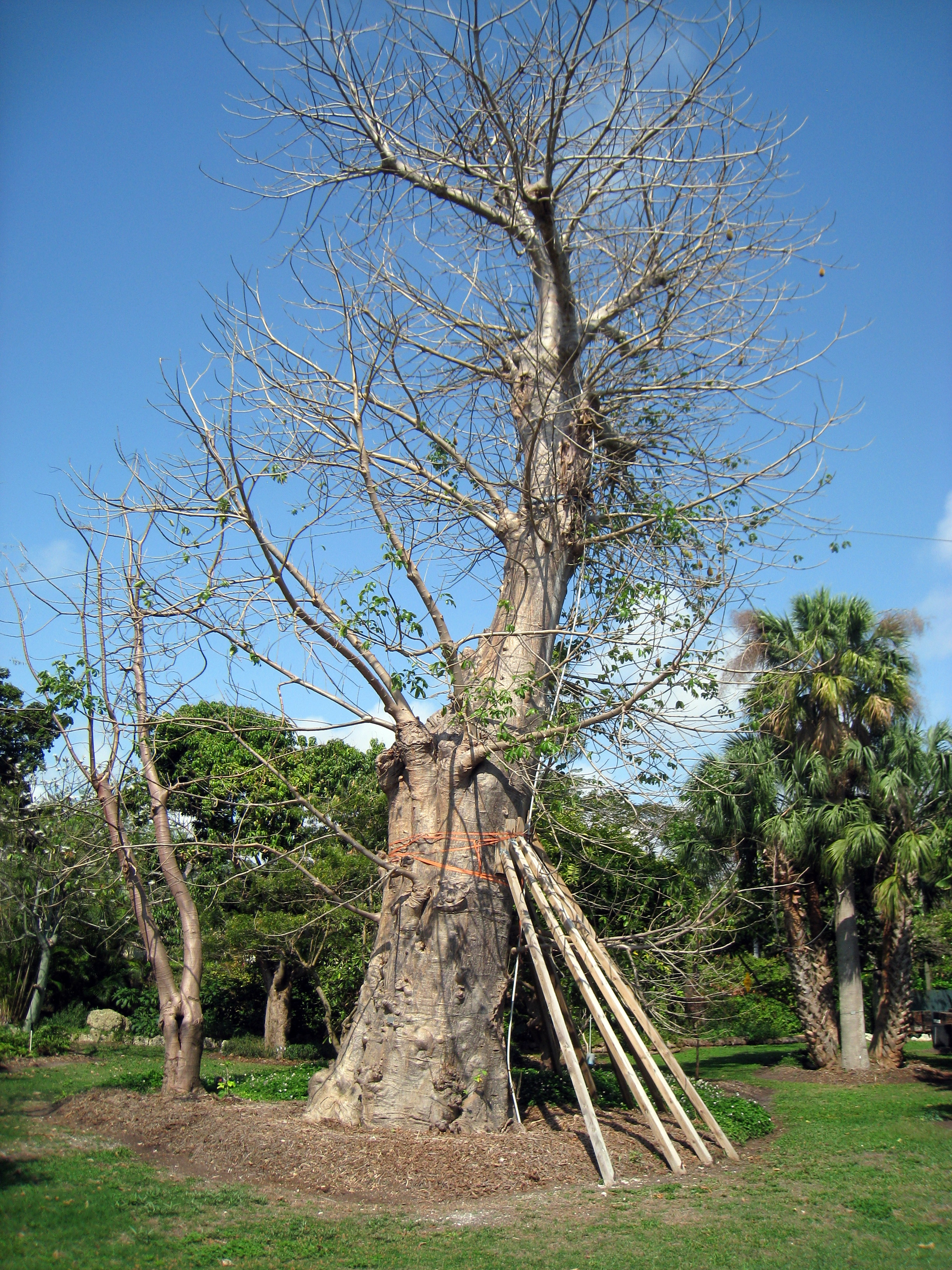 The Kampong, Coconut Grove, Florida, USA. Baobab tree (Adansonia digitata)..